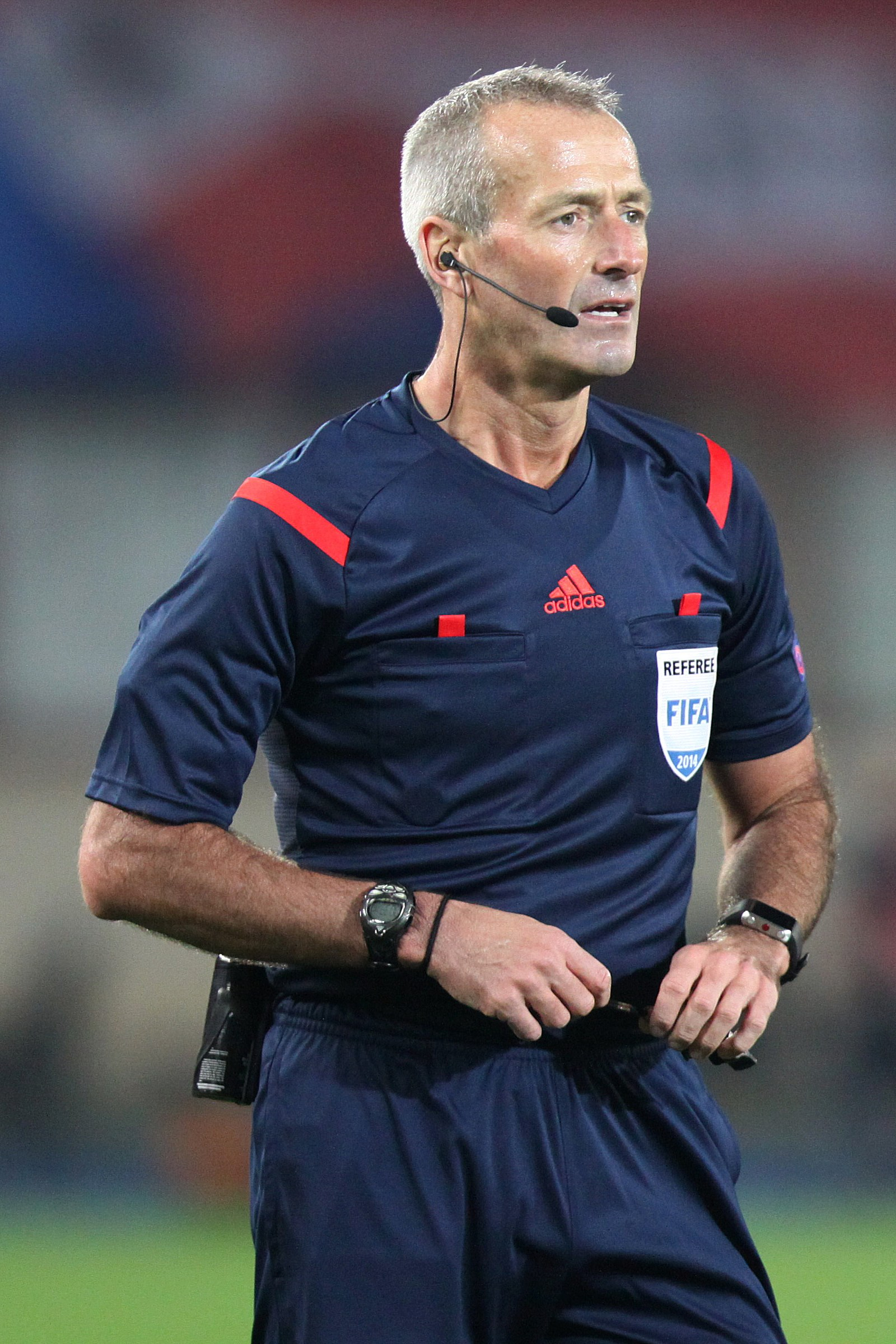 UEFA Euro 2016 qualifying: Austria vs. Russia (1:0 / 0:0) at 2014-11-15 in the Ernst-Happel-Stadion in Vienna. – The photo shows referee Martin Atkinson (England).